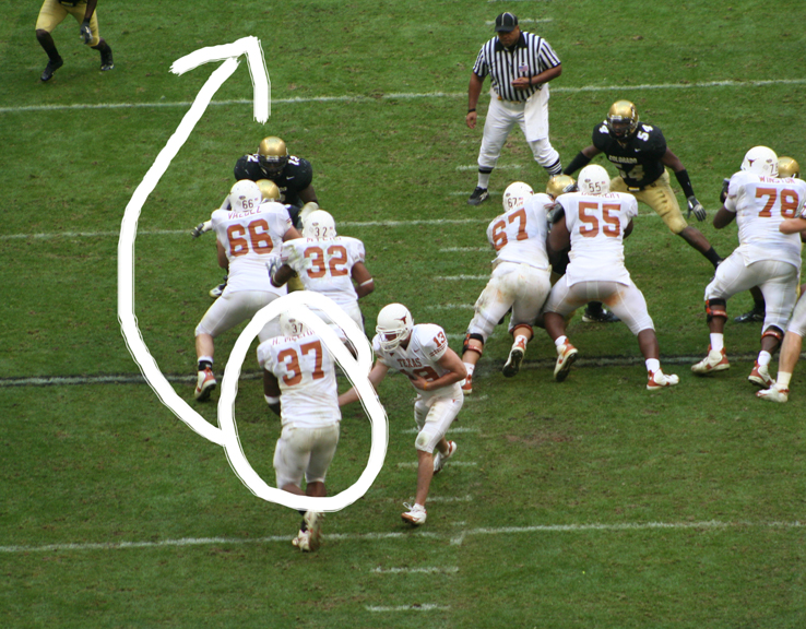 Mockup of telestrator diagram. Based on Image:UT Longhorn football - handoff to Melton in Big12 championship game.JPG by Johntex.